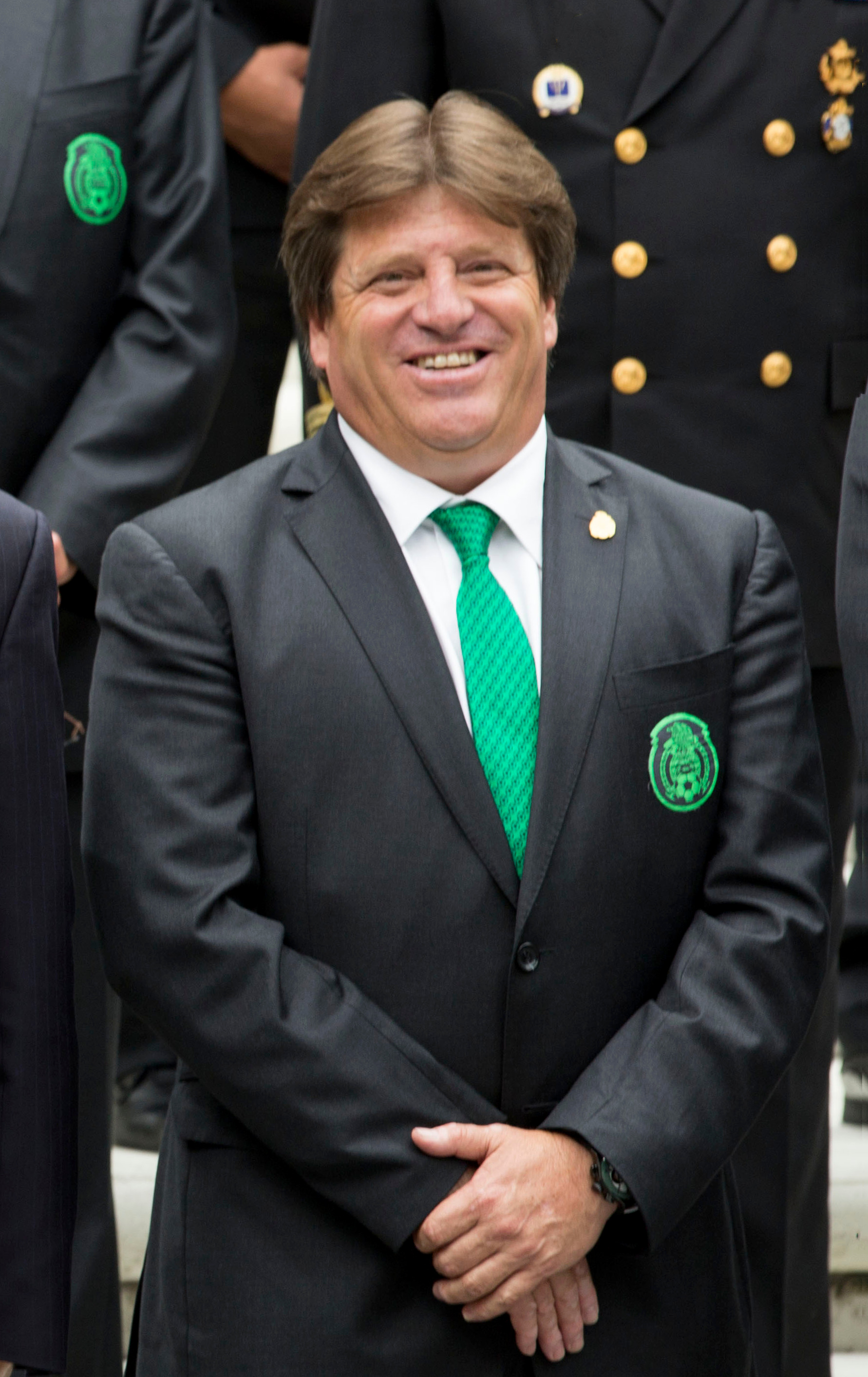 Miguel Ernesto Herrera Aguirre